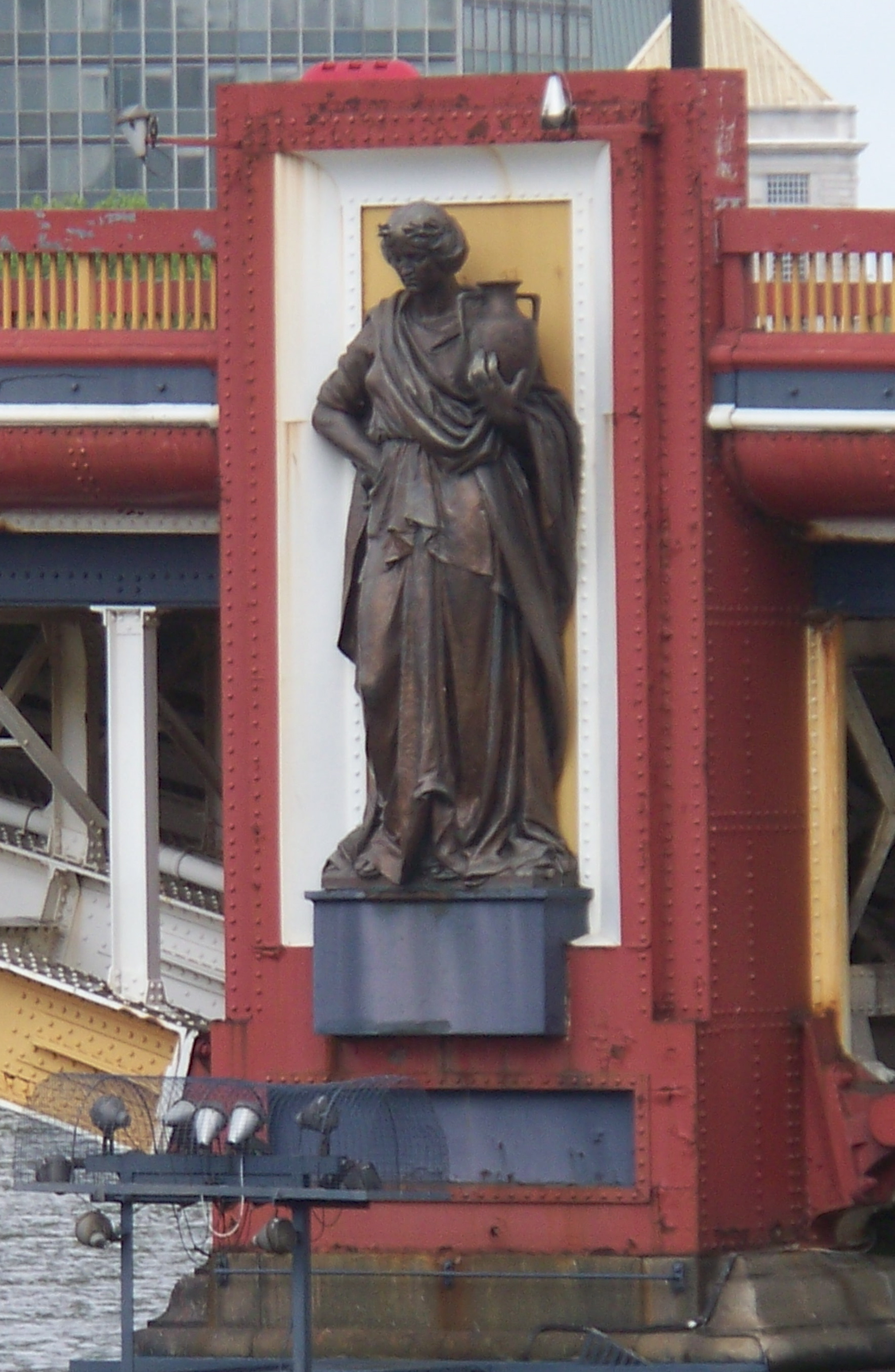 Pottery, Frederick Pomeroy, Vauxhall Bridge, London. Photograph taken in a public location in the UK of a building on permanent public display, and exempt from copyright under Section 62 of the Copyright Designs & Patents Act 1988 ("it is not an infringement of copyright to film, photograph, broadcast or make a graphic image of a building, sculpture, models for buildings or work of artistic craftsmanship if that work is permanently situated in a public place or in premises open to the public")